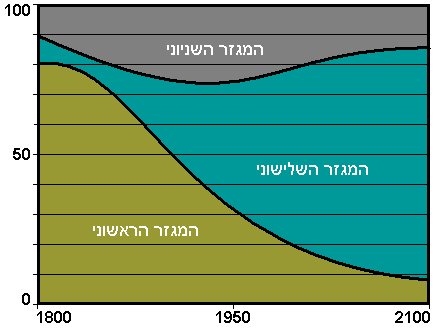 The three-sector hypothesis